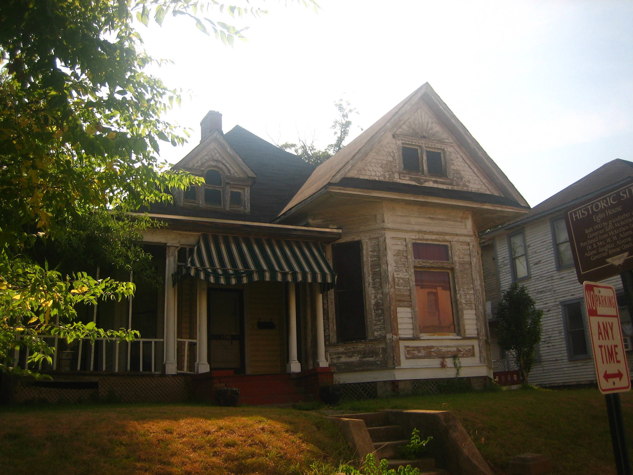 I took photo on Aug. 9, 2008.Billy Hathorn (talk) 22:18, 14 August 2008 (UTC) Eglin House, 1743 Irving Place, Shreveport, Louisiana. A contributing property to the Highland Historic District on the National Register of Historic Places.